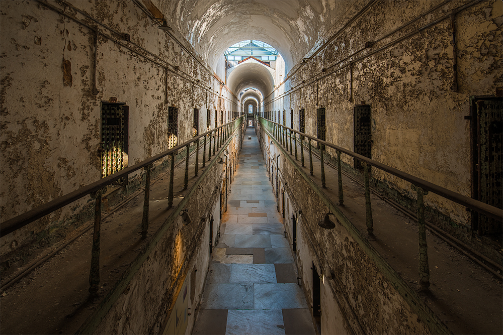 Eastern State Penitentiary Cellblock